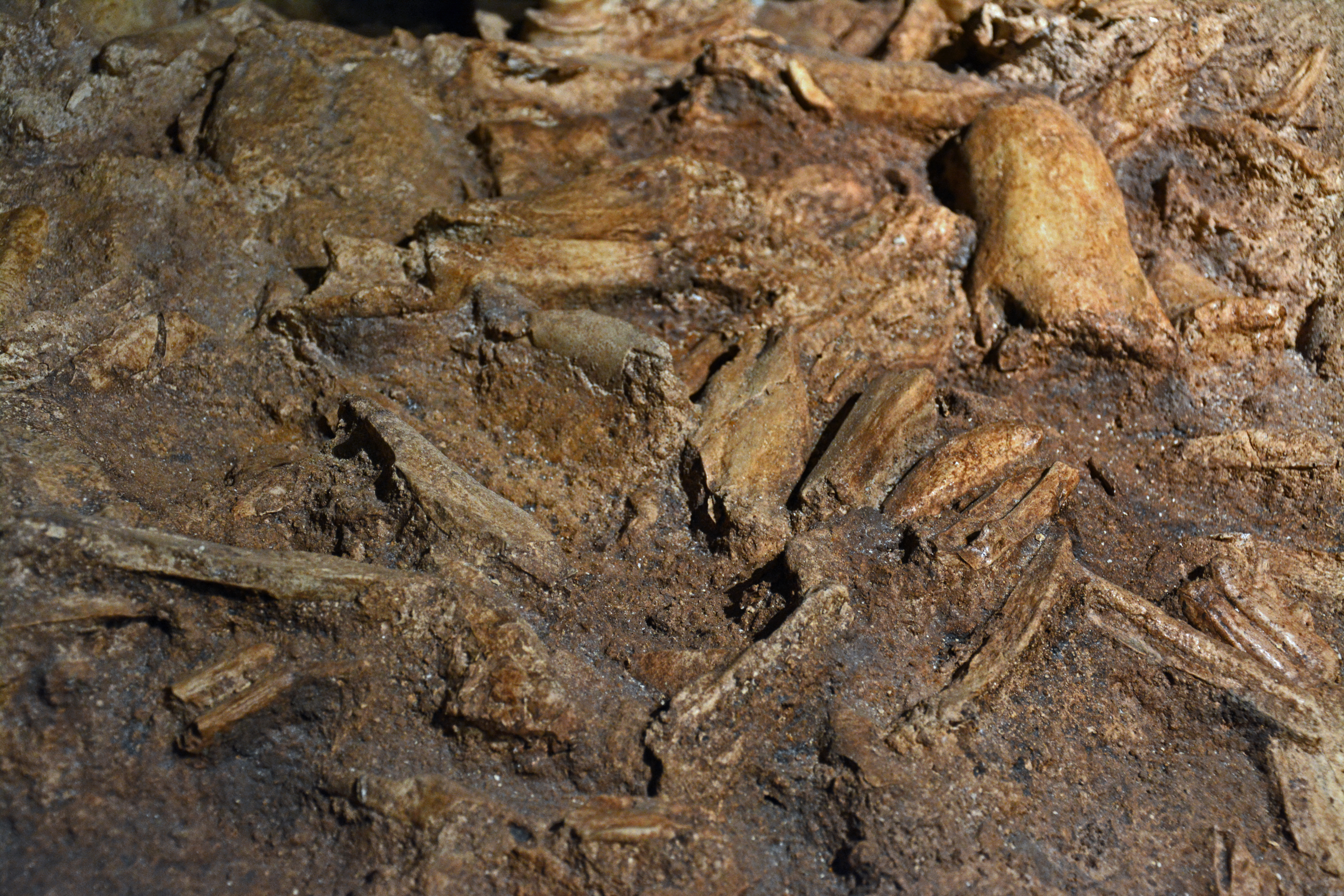 Molding of prehistoric remains (35,000 year ago), from a den entrance of cave hyena (Cave : Trou de Cluzeau in Ronsenac, France) with an herbivore bones carpet at the entrance. The bones were fragmented by hyenas but come from Aurochs, deer, horses, megaceros, woolly rhinoceros and hyenas.